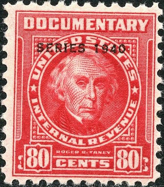 Image of RB Taney revenue stamp, 80-cents, issue of 1940 (Scotts# R299)